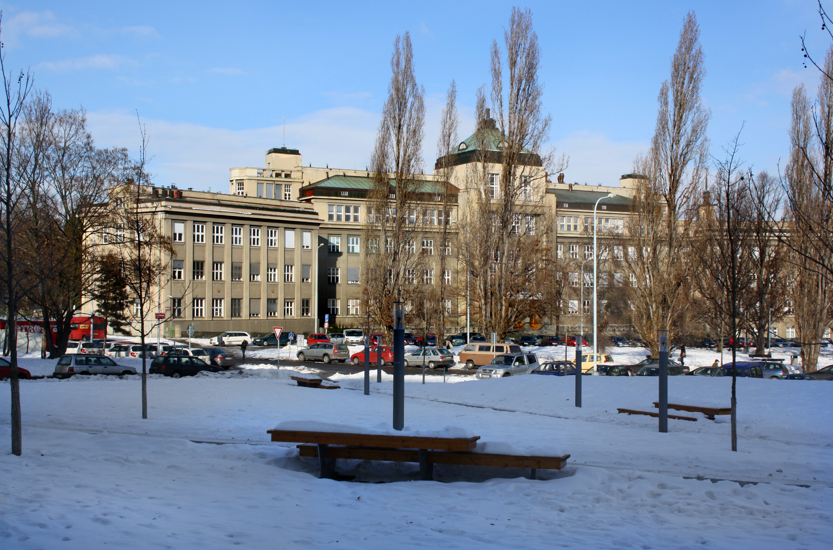 Flemingovo square in Dejvice, Prague